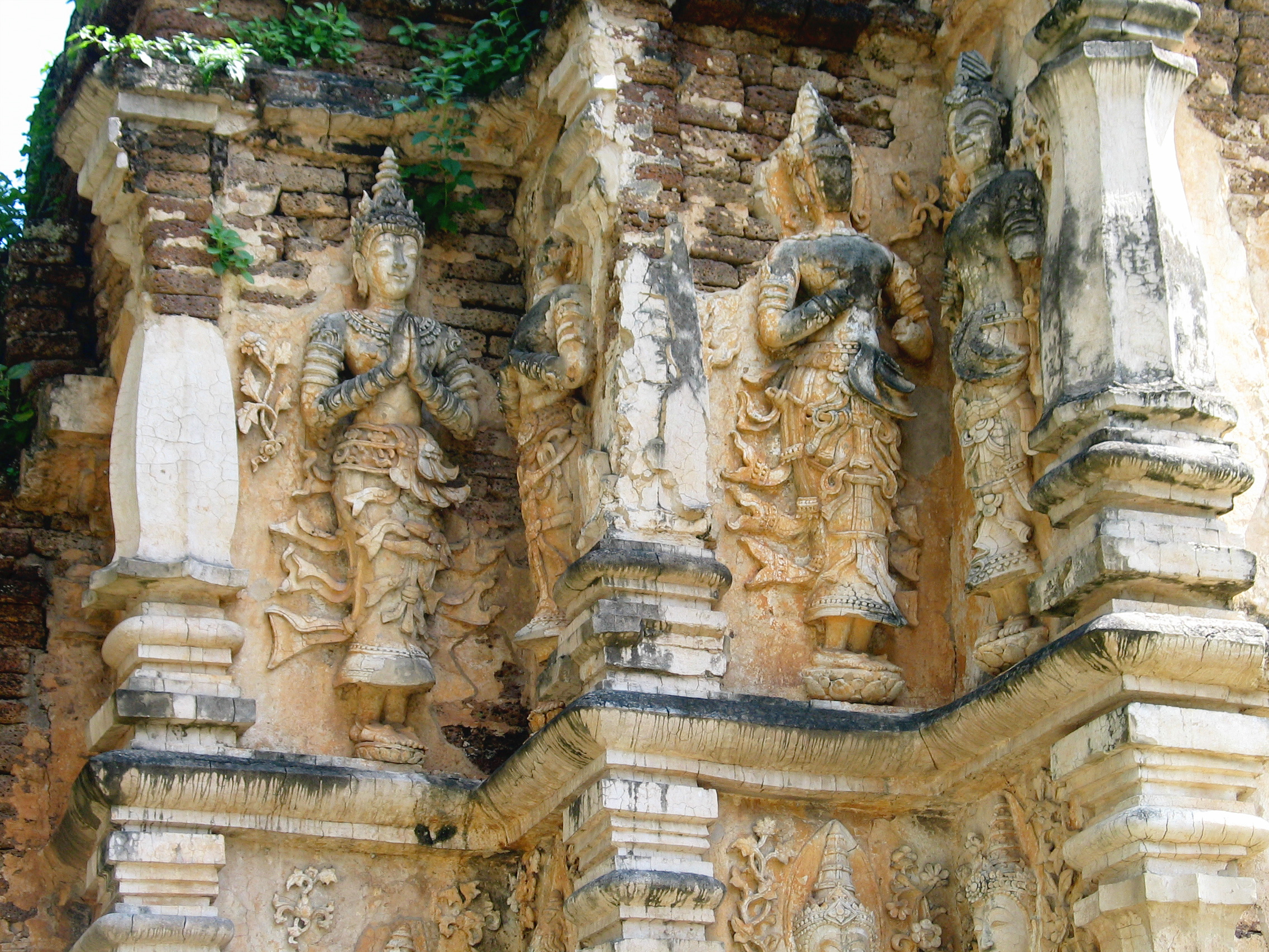 Wat Chet Yot, buddhist temple in Chiang Mai, northern Thailand